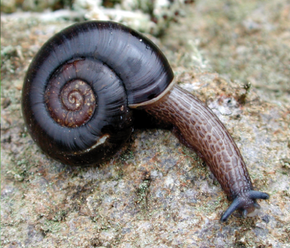 Photo of Zophos cf. baudoni from Dominica.